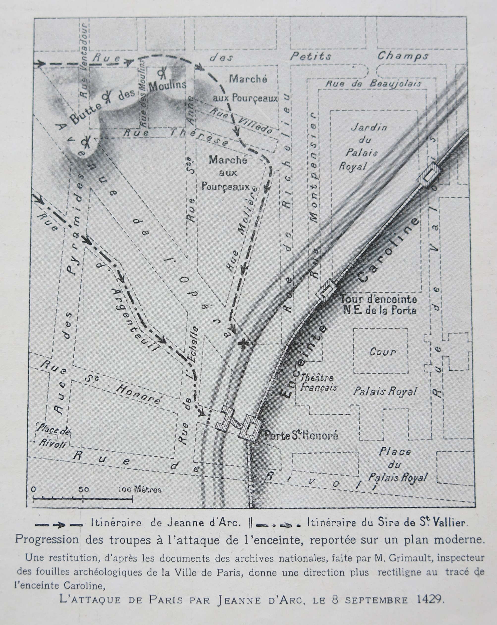 March approach to Paris by Joan of Arc and the Lord of Saint-Vallier (September 1429).